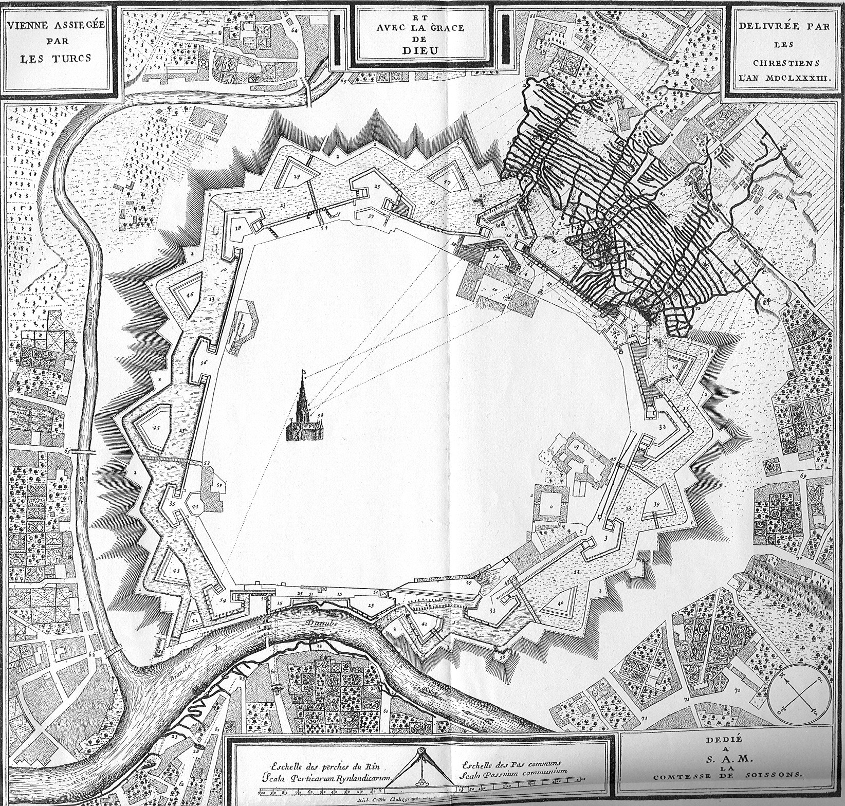 French map of the siege of Vienna by the Turks in 1683.